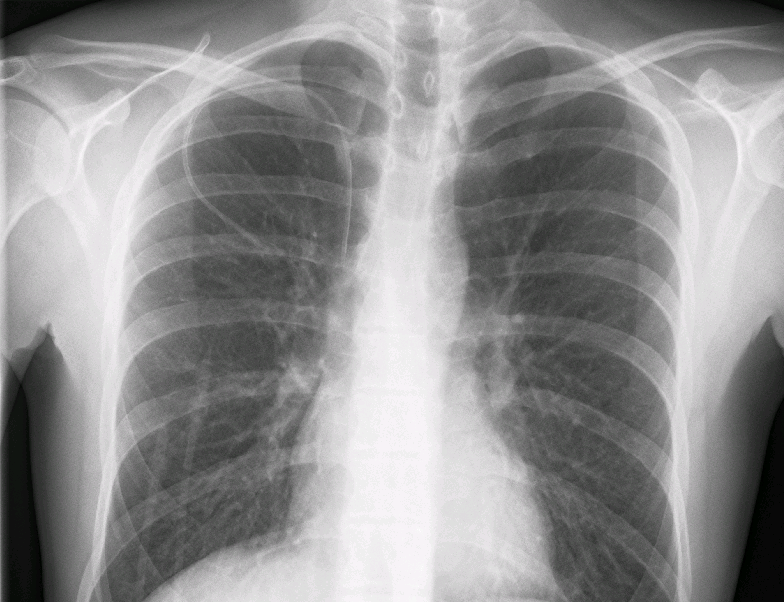 Chest x-ray with central venous catheter visible in the right subclavian vein